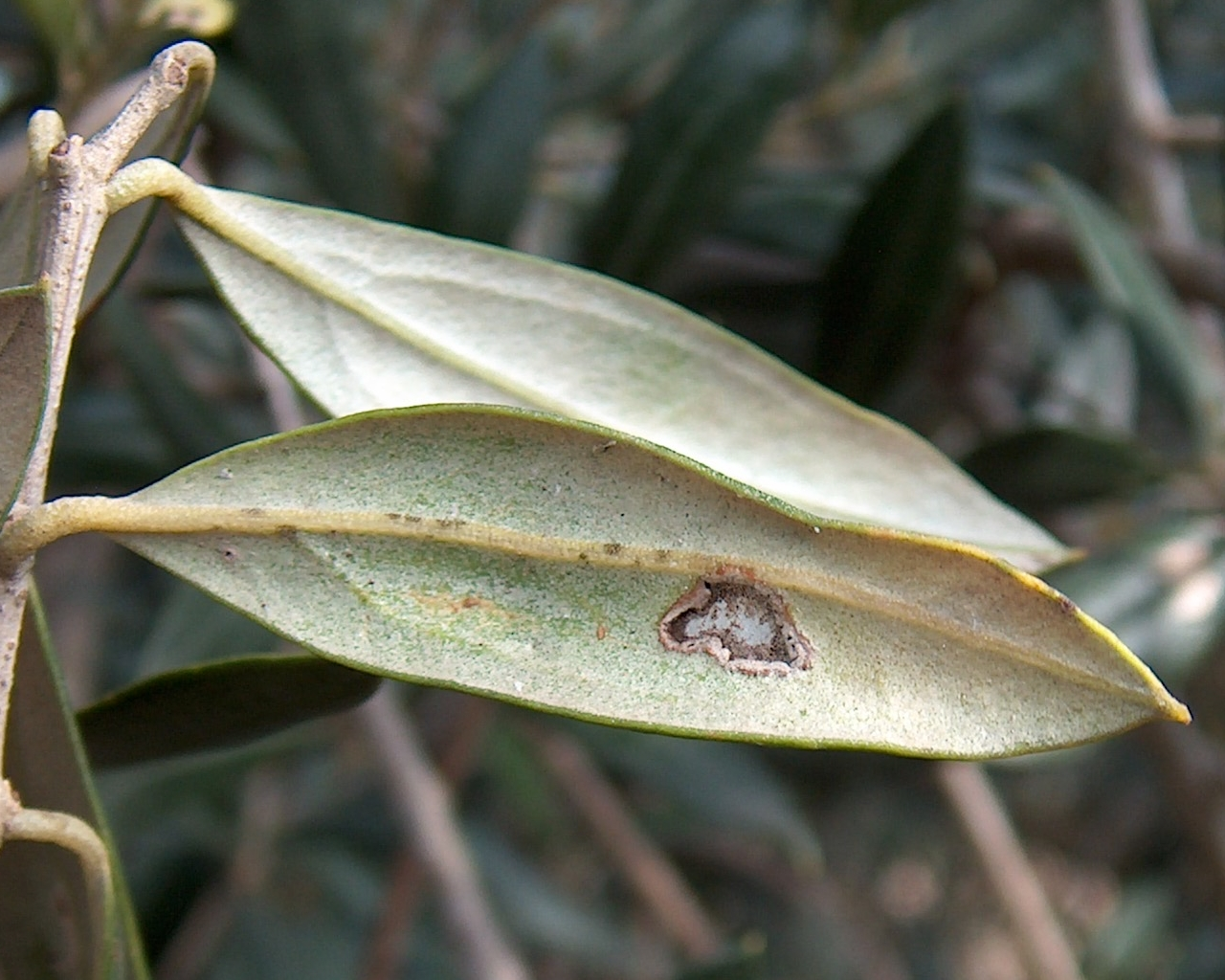 Damage by larva instar V of Prays oleae Bernard (Lepidoptera: Yponomeutidae) on Olive tree leaf